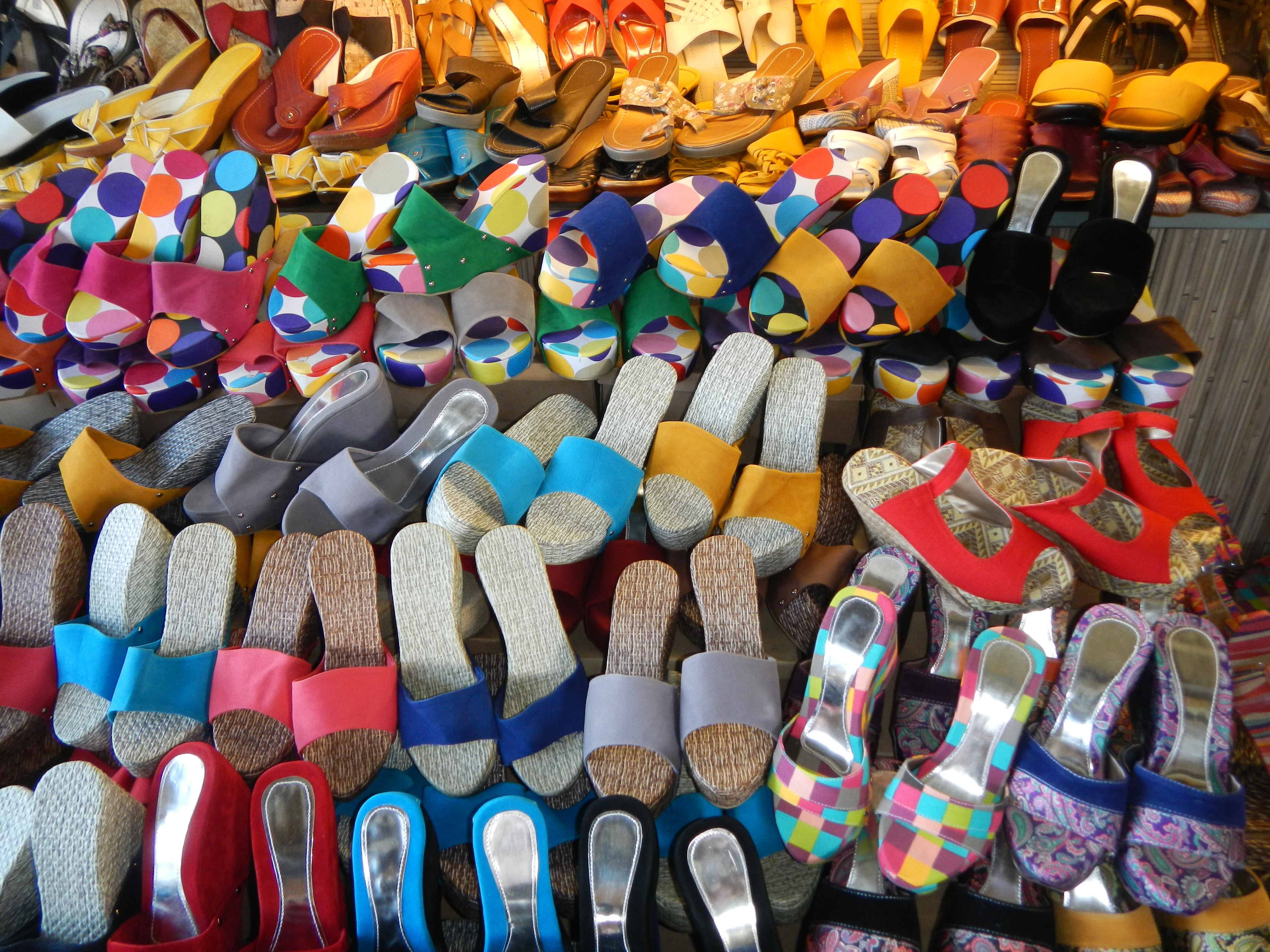 UploadWizard photos --- (general description) of (landmarks, heritage, culture, comprehensive, photography) of – Liliw, Laguna - the hundreds of stores, composing the landmark, world famous Liliw Tsinelas, Shoes, or Slippers industry, in Centro, Poblacion [ [1]) ---- Liliw, Laguna [2] (fourth class municipality in the province of Laguna,[3] Philippines subdivided into 33 barangays, founded in 1571 by Gat Tayaw, nestled at the foot of Mount Banahaw,[4] latest census, population of 33,851 total land area of 88.5 sq. miles [5] Coordinates: 14°7'15"N 121°27'40"E ‘Tsinelas’: Liliw, Laguna’s pride History of Liliw [6] Capilla de Buenaventura, Saint John the Baptist Parish Church of Liliw [7] Geographical location: Laguna, Region 4, Philippines, Asia Ggeographical coordinates: 14° 7' 55" North, 121° 26' 8" East).